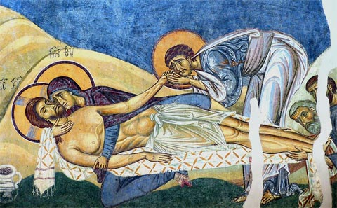 from Nerezi near Skopje, R.o.Macedonia